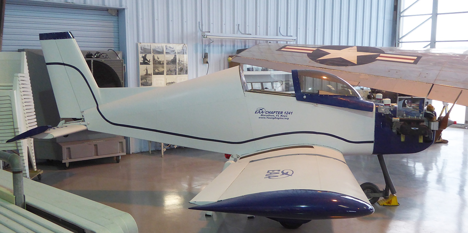 At the Museum of EAA Chapter 1241, Florida Keys Marathon Airport, Florida. This was built by a Chapter member, but never has never been registered or flown.